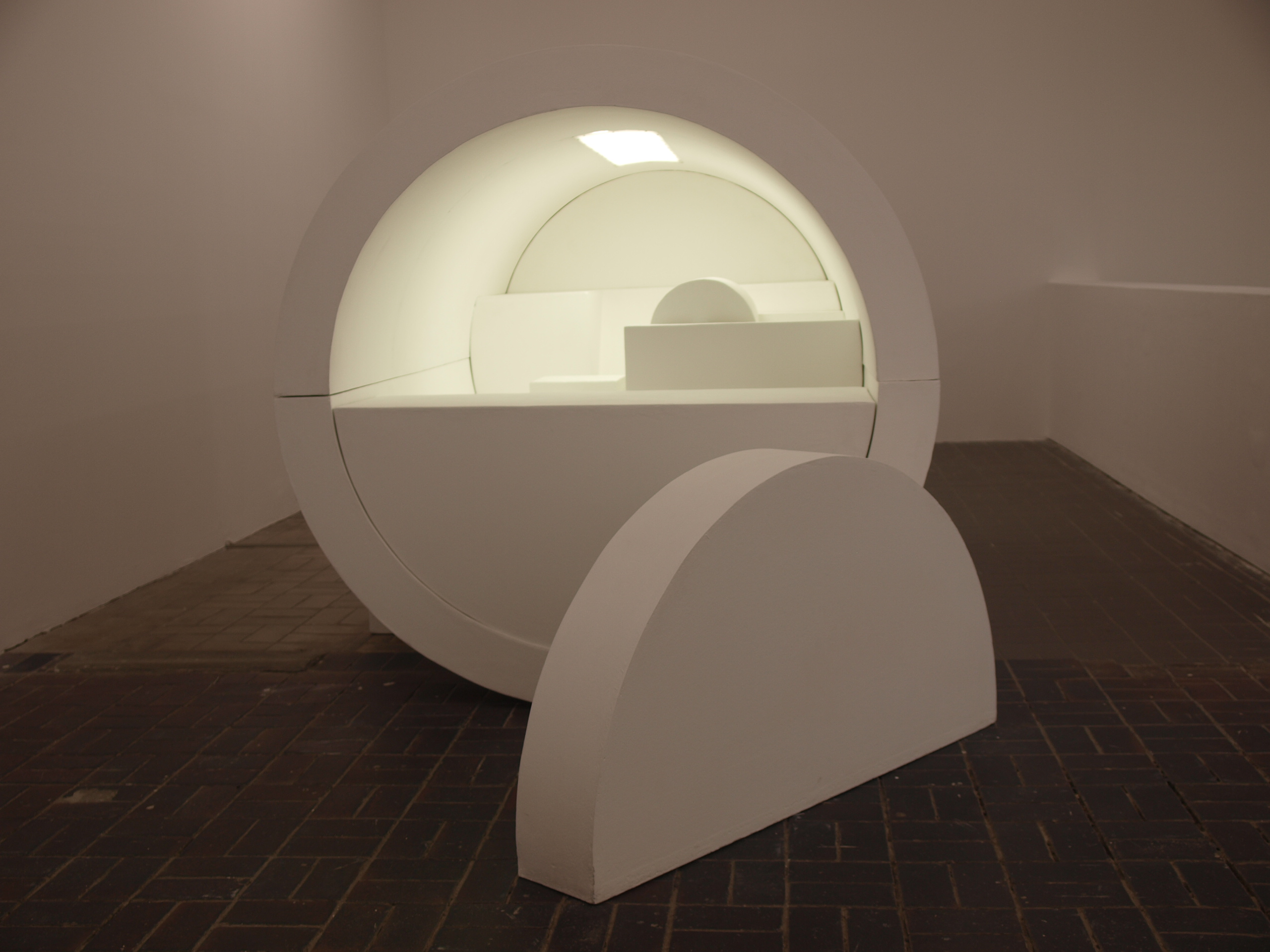 Wood, cardboard, white dispersion paint, neon tube, perspex, 176×173×263; collection of Fonds Régional d’Art Contemporain Aquitaine, Bordeaux